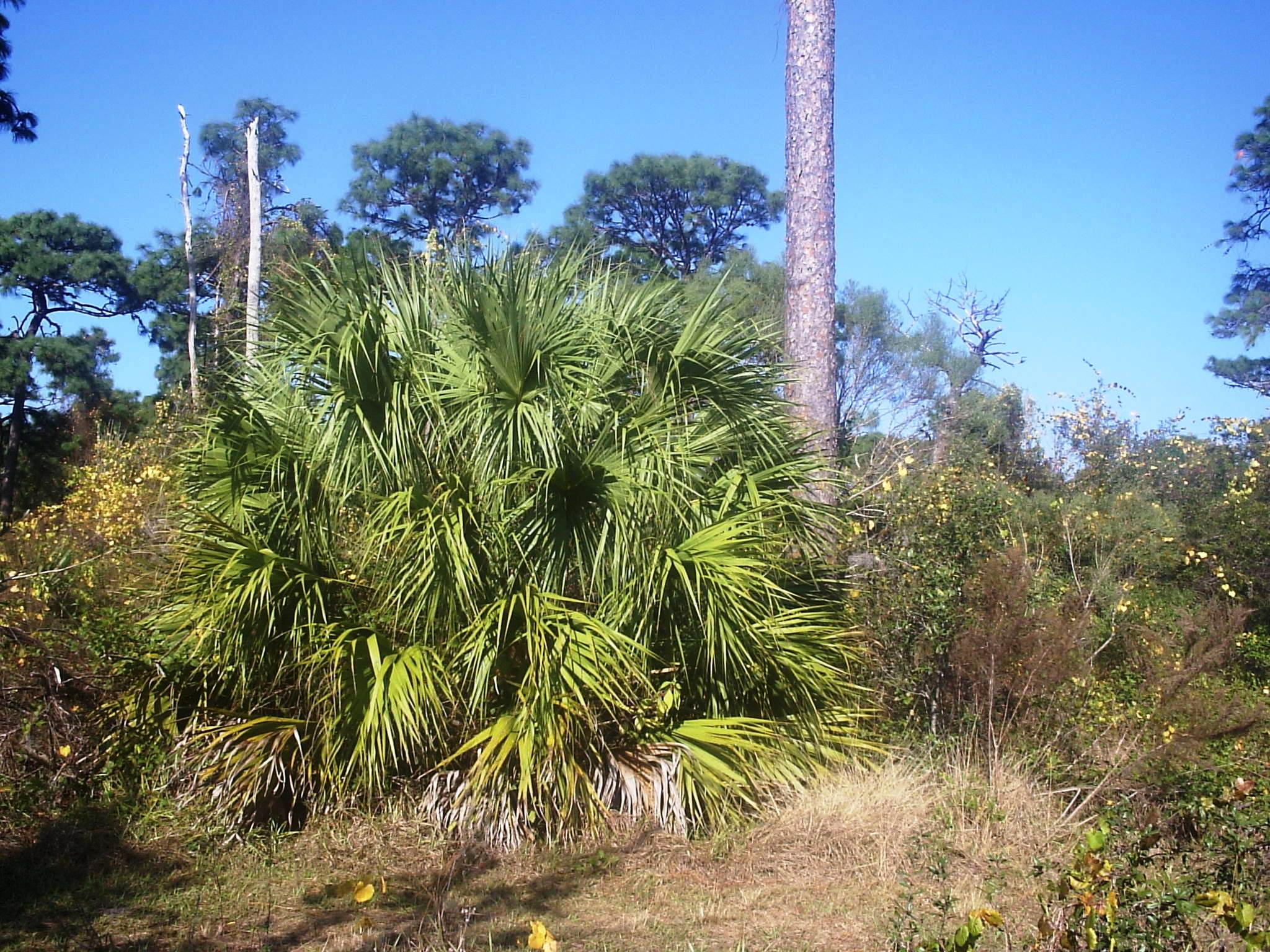 taken by me, Mikereichold 20:10, 3 January 2006 (UTC) on January 2, 2006 at the Florida Botanical Gardens. Shows palmettos and pine.